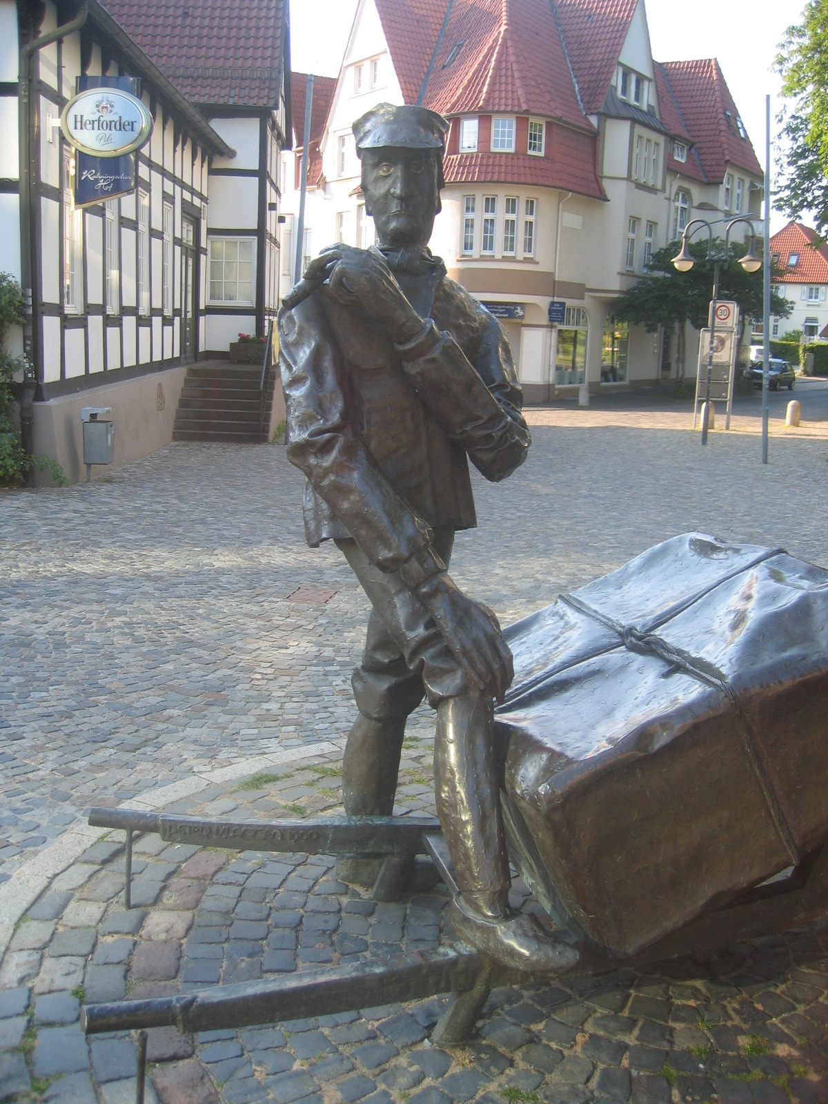 Sculpture in Bünde, District of Herford, North Rhine-Westphalia, Germany.